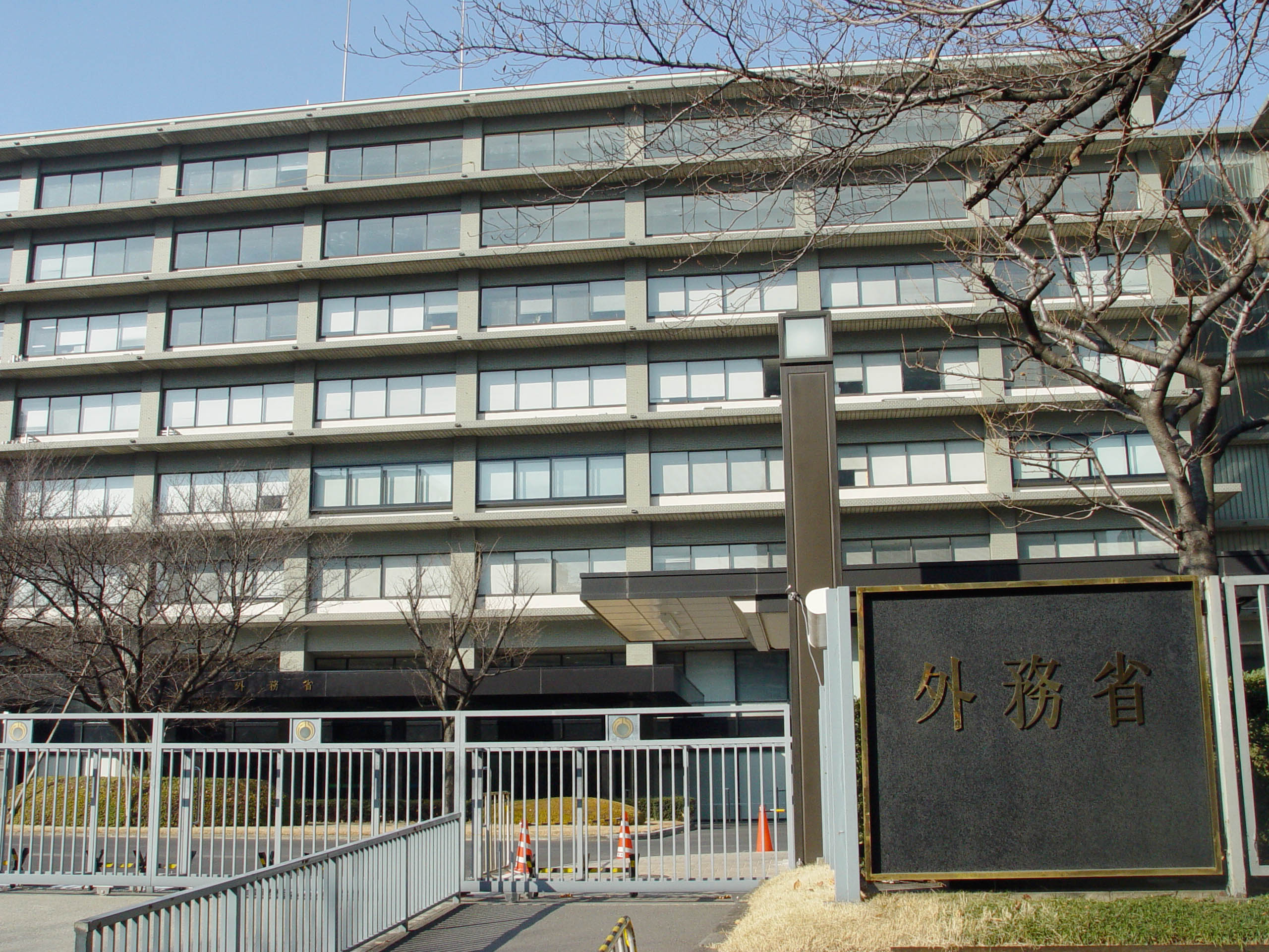 Public office building of the The Ministry of Foreign Affairs, Japan 外務省庁舎